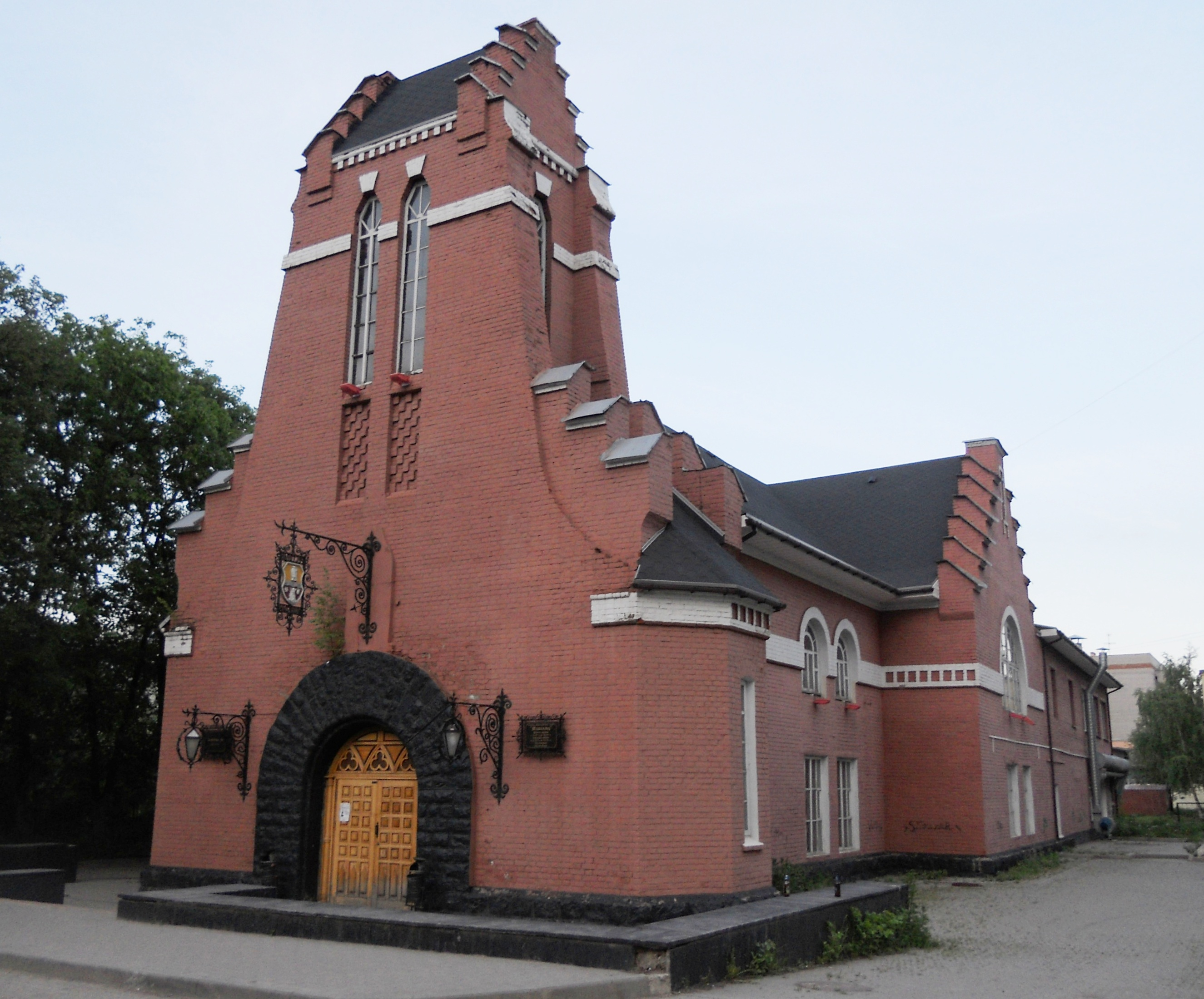 Church of the Feast of the Cross in Vologda